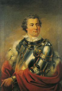 Portrait of Franz Joseph Maximilian von Lobkowitz (1772-1816)